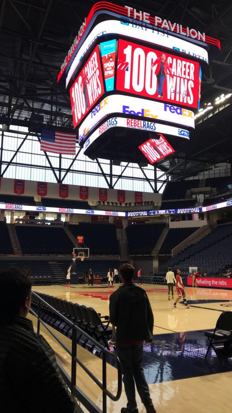 Court level view at the Pavilion